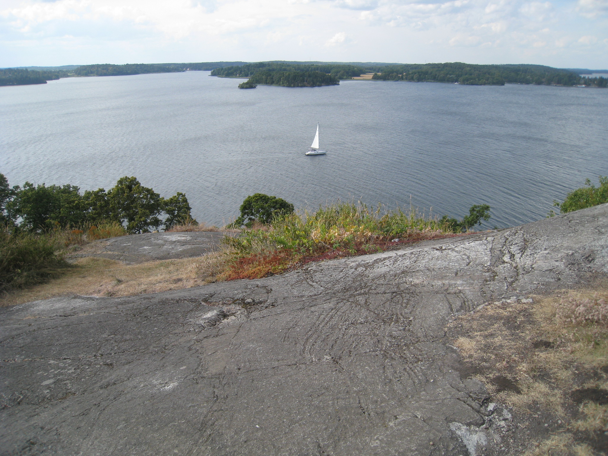 Gåseborg hillfort in Görväln's nature reserves in Järfälla Municipality, western Stockholm. View over the sea Mälaren.